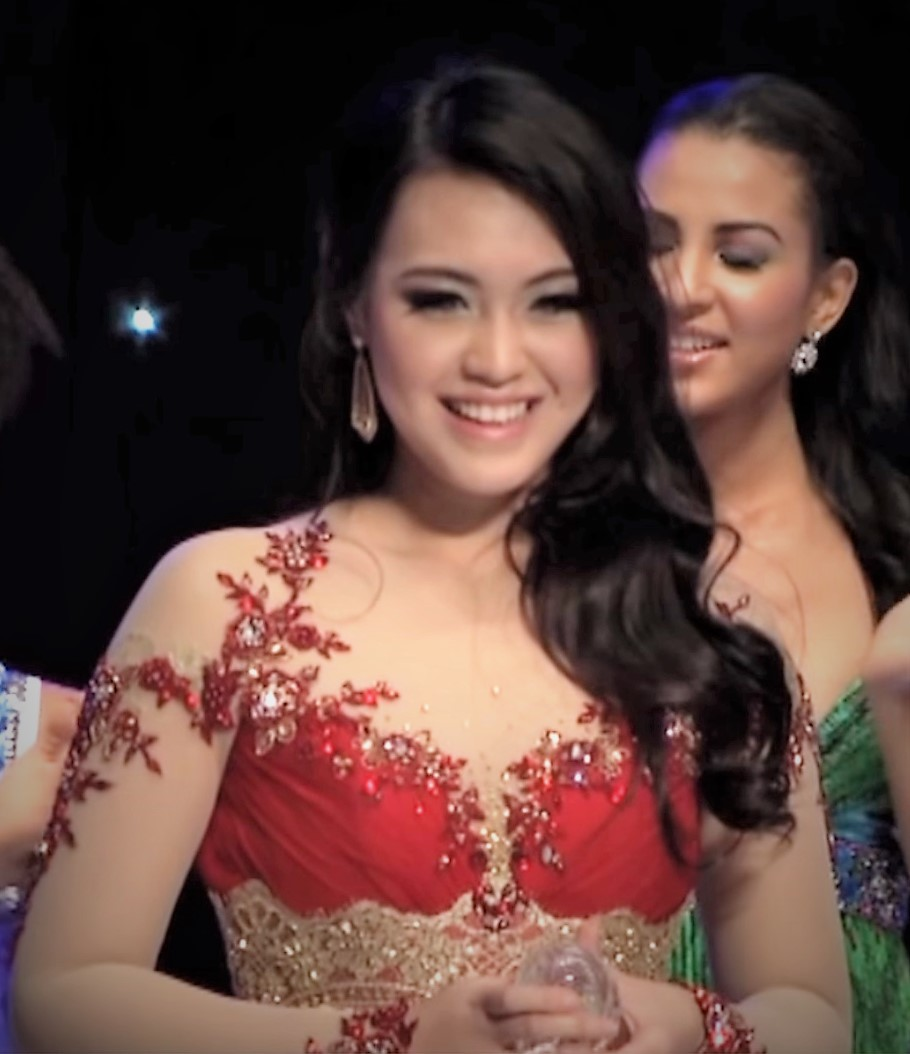 Miss World 2013 TALENT COMPETITION Miss World 2013 TALENT COMPETITION Bali, Sunday 22nd of September The Jury : Julia Morley, Donna Walsh, Michael Dixon, Derreck Wheeler, Lady Wilenia Forysth, Liliana Tanoesoedibjo & Lina Priscilla Miss Indonesia 2013, Vania Larissa, has won the Talent Competition of the Miss World 2013 pageant. Vania, a singer, was announced the winner of the talent round during its final held at the Mangupura Hall in Bali, where the 63rd edition of Miss World pageant is taking place.